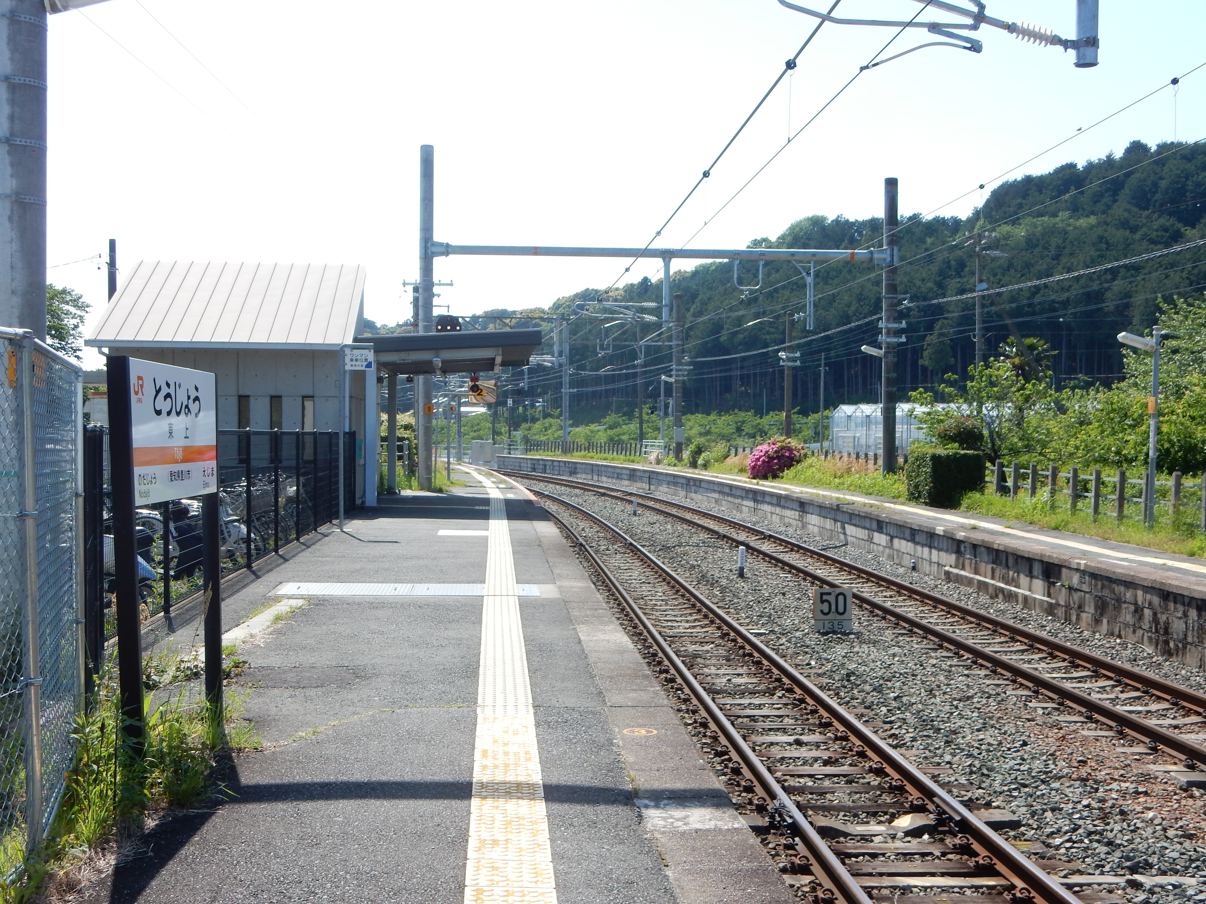 Tōjō_Station, located at 46 Tokyoji, Tojo, Toyokawa, Aichi, Japan